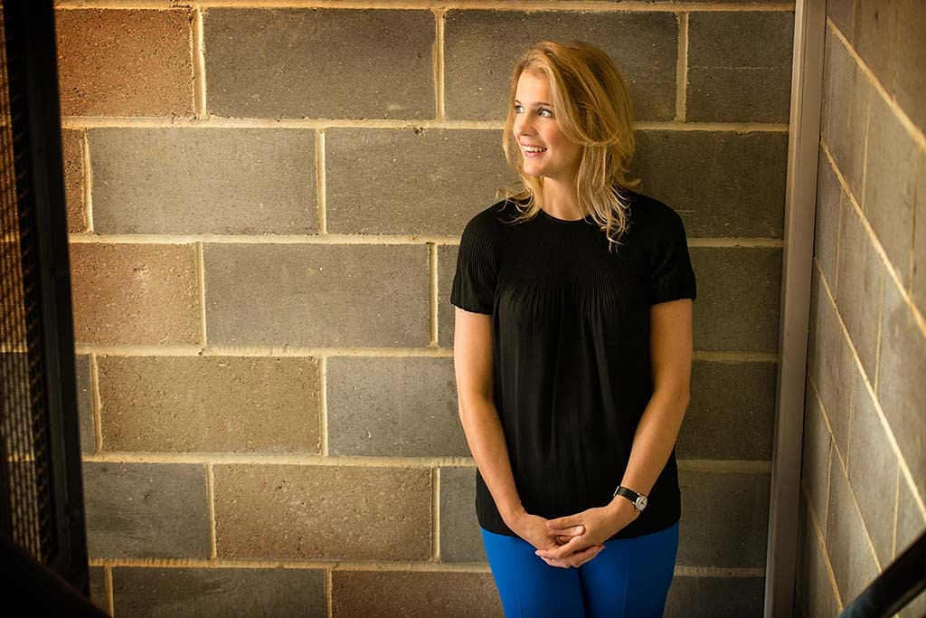 Picture reproduced under a CC-BY-SA license with permission from Paul Wilkinson Photography Ltd.